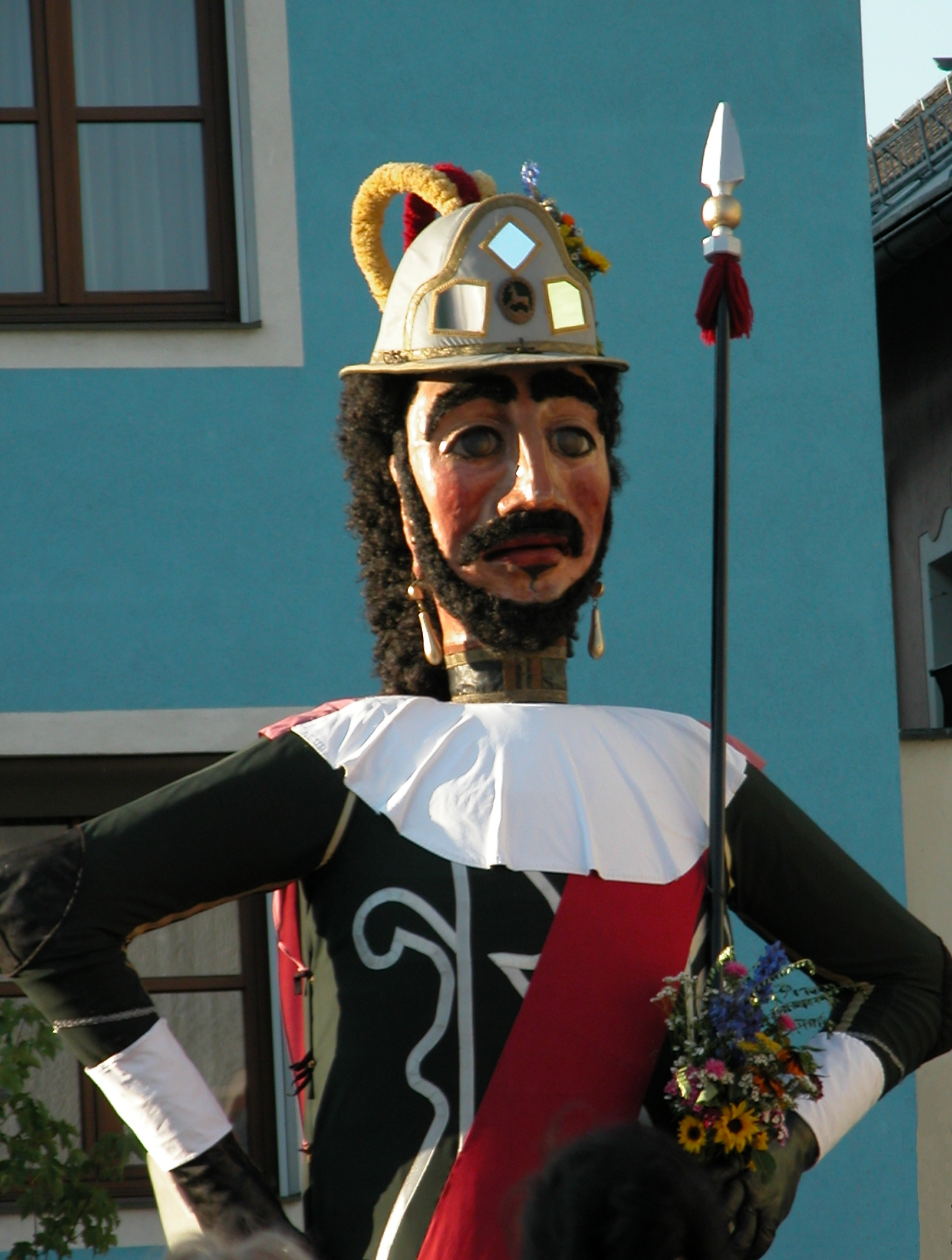 Giant Samson from Tamsweg